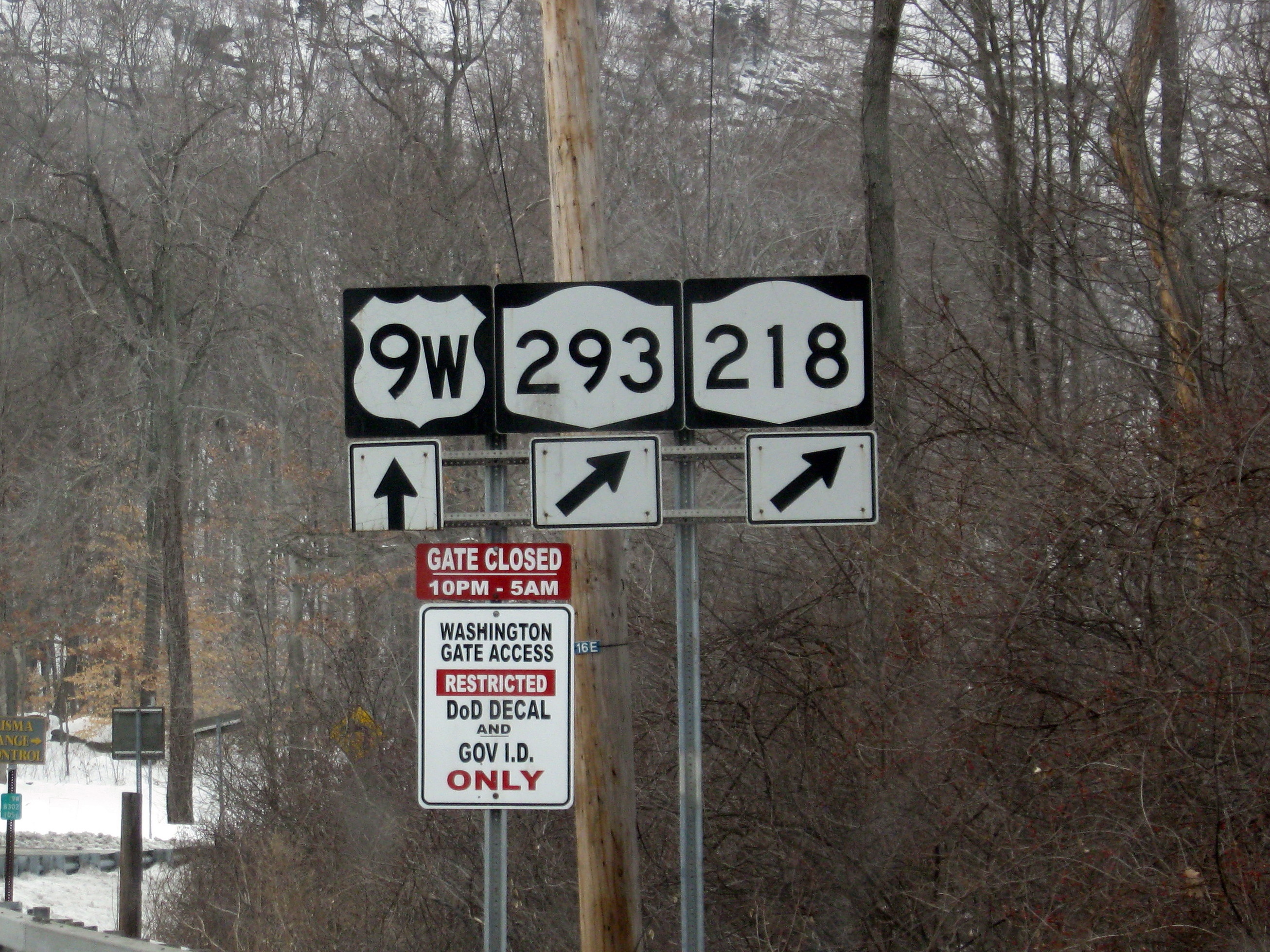 New York State Route 293 at its northern terminus at the interchange with US 9W and New York State Route 218 near West Point Military Academy. This interchange is also the northern terminus of a concurrency between US 9W and NY 218.